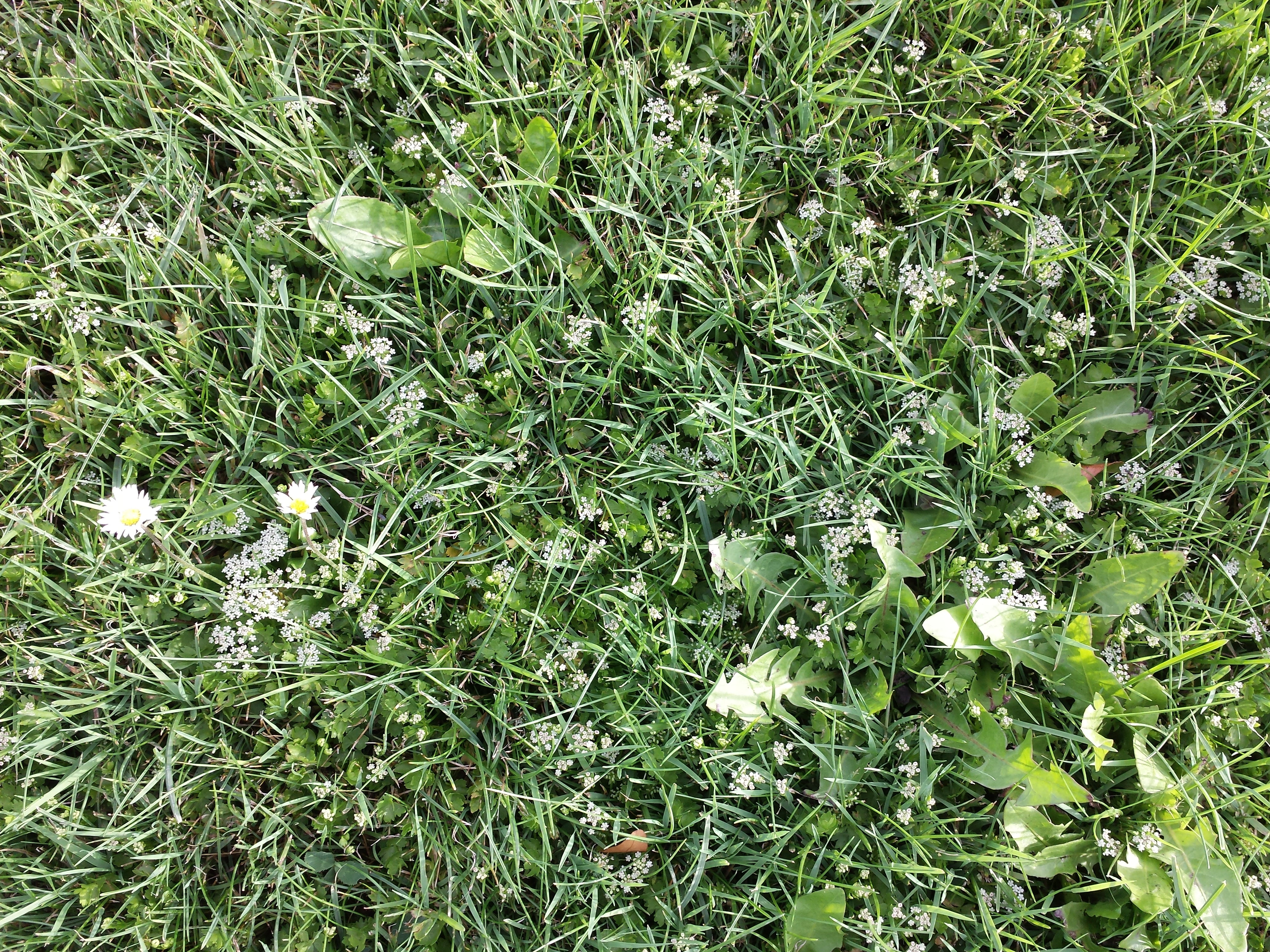 Habitus Taxonym: Helosciadium repens ss Fischer et al. EfÖLS 2008 ISBN 978-3-85474-187-9 Location: Donaupark, Vienna-Donaustadt - ca. 160 m a.s.l. Habitat: turf